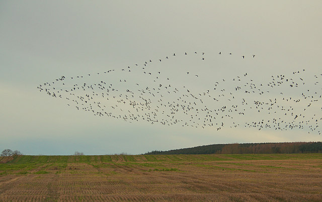 A skein of Greylag gets airborne east of Burnside Farm. Thousands of Greylag Geese arrive in Morayshire during the winter months. The main thrust of these vast skeins come from Iceland.